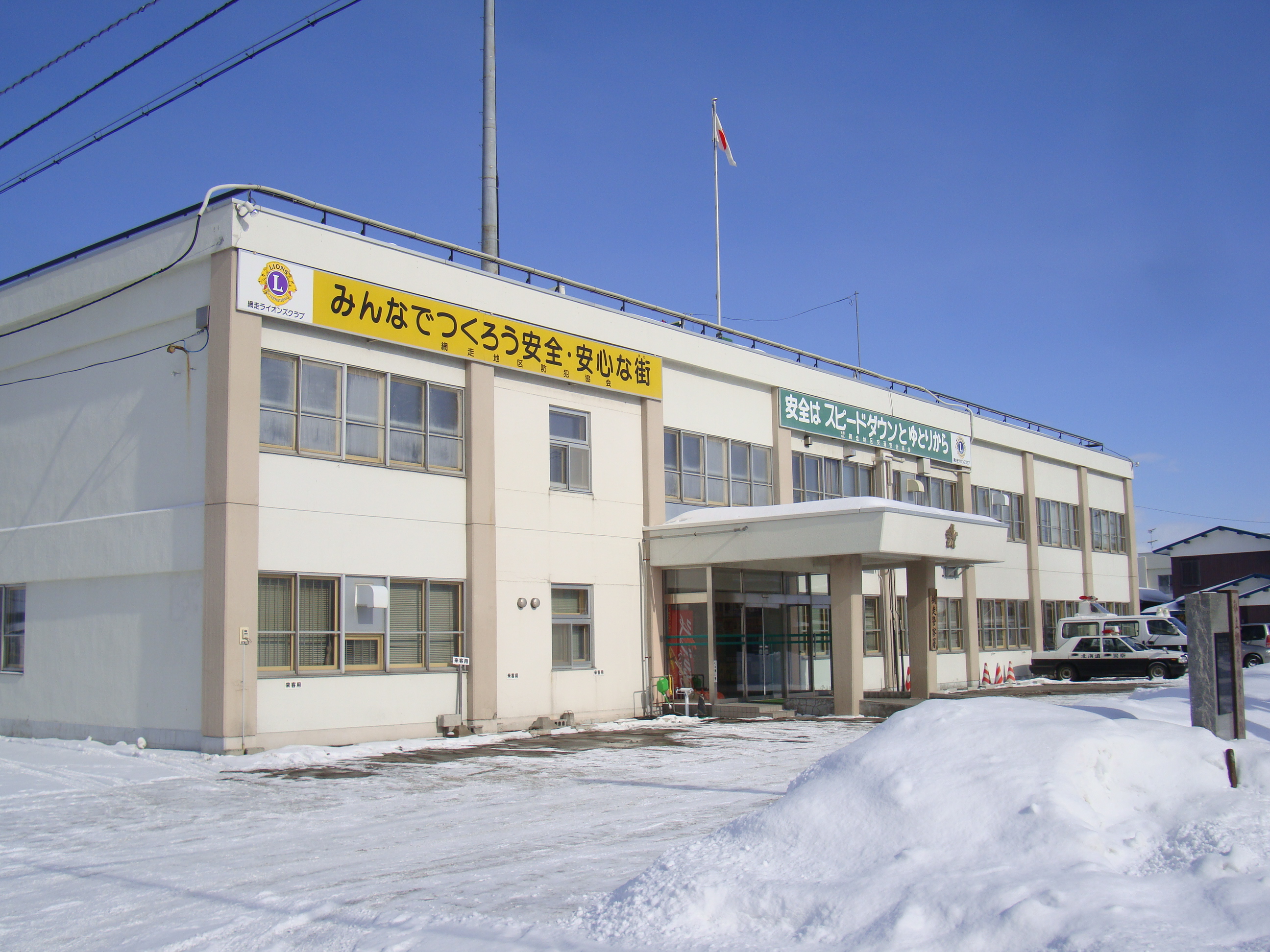 Abashiri Police station.